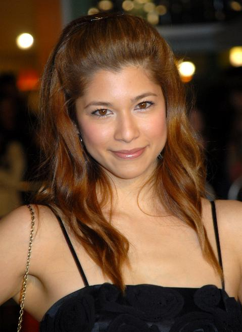 January 7, 2008 - 27 Dresses Premiere in Westwood